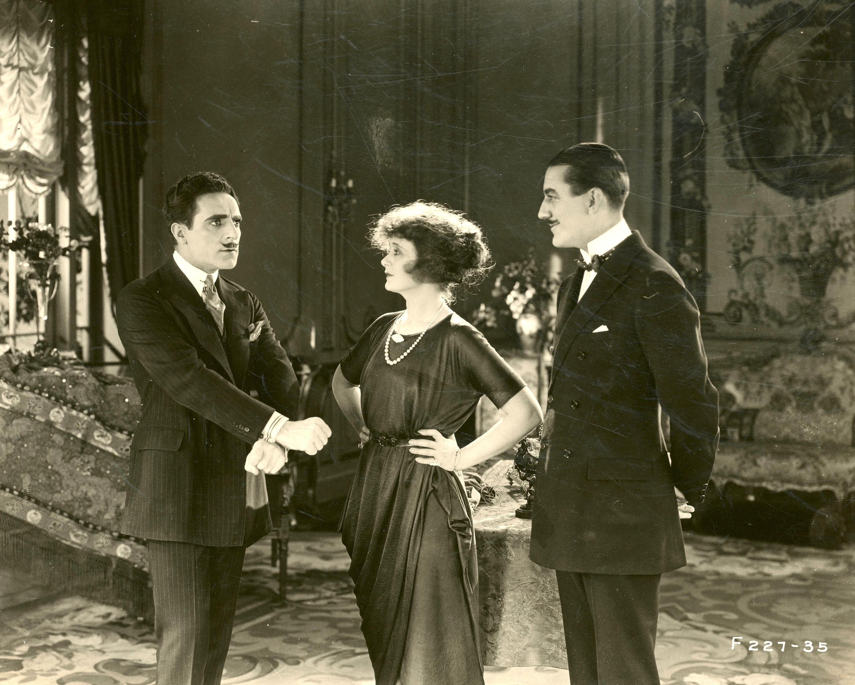 Left to right: Jean De Briac, Billie Burke, and Ward Crane in the American comedy film The Frisky Mrs. Johnson (1920) - publicity still (original image damaged, cropped and modified : see source)